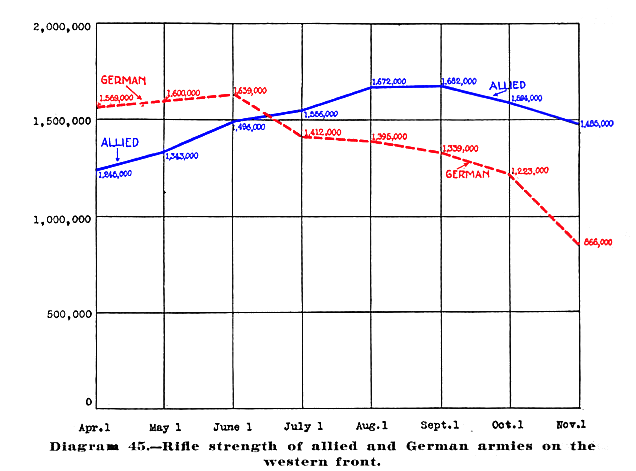 Graph showing the number of German and Allied riflemen on the Western front April to November 1918. Leonard P. Ayers, ed. The war with Germany: a statistical summary (Published 1919 by Govt. Print. Off. in Washington DC)